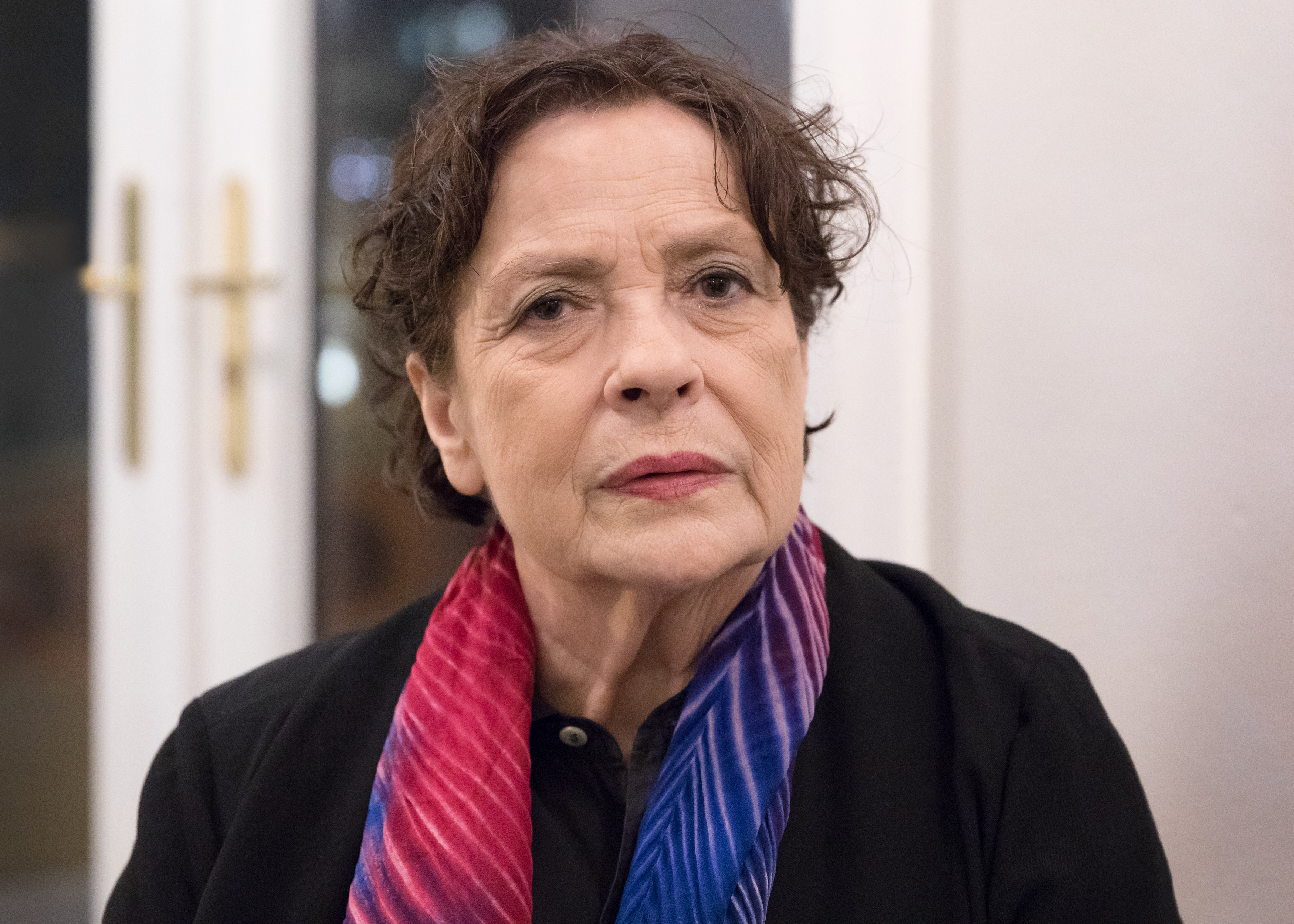 Kirsten Dene, Nestroy Theatre Awards 2017 (Kursalon Hübner, Vienna, Austria).